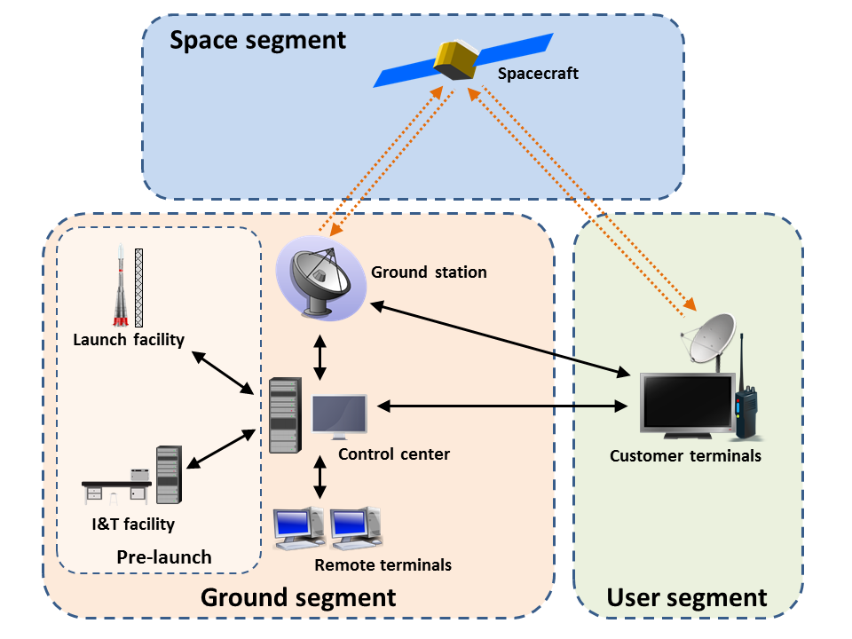 Simplified diagram of segments of a satellite system